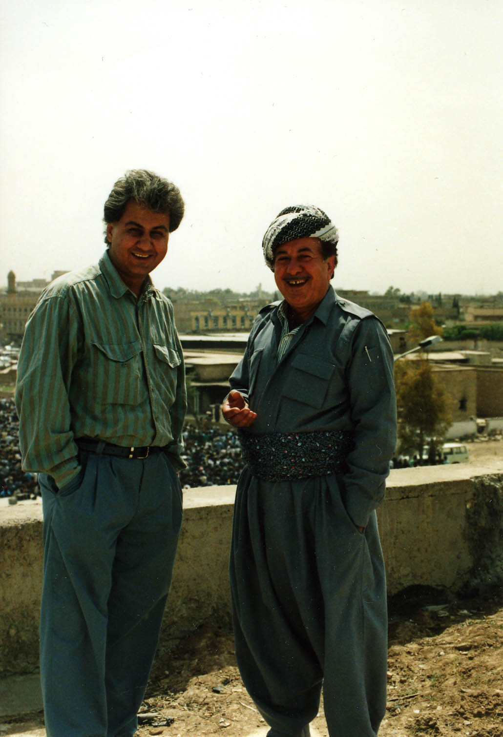 Kurdish Singers Tahsin Taha and Dimokrat Taha from Amediye